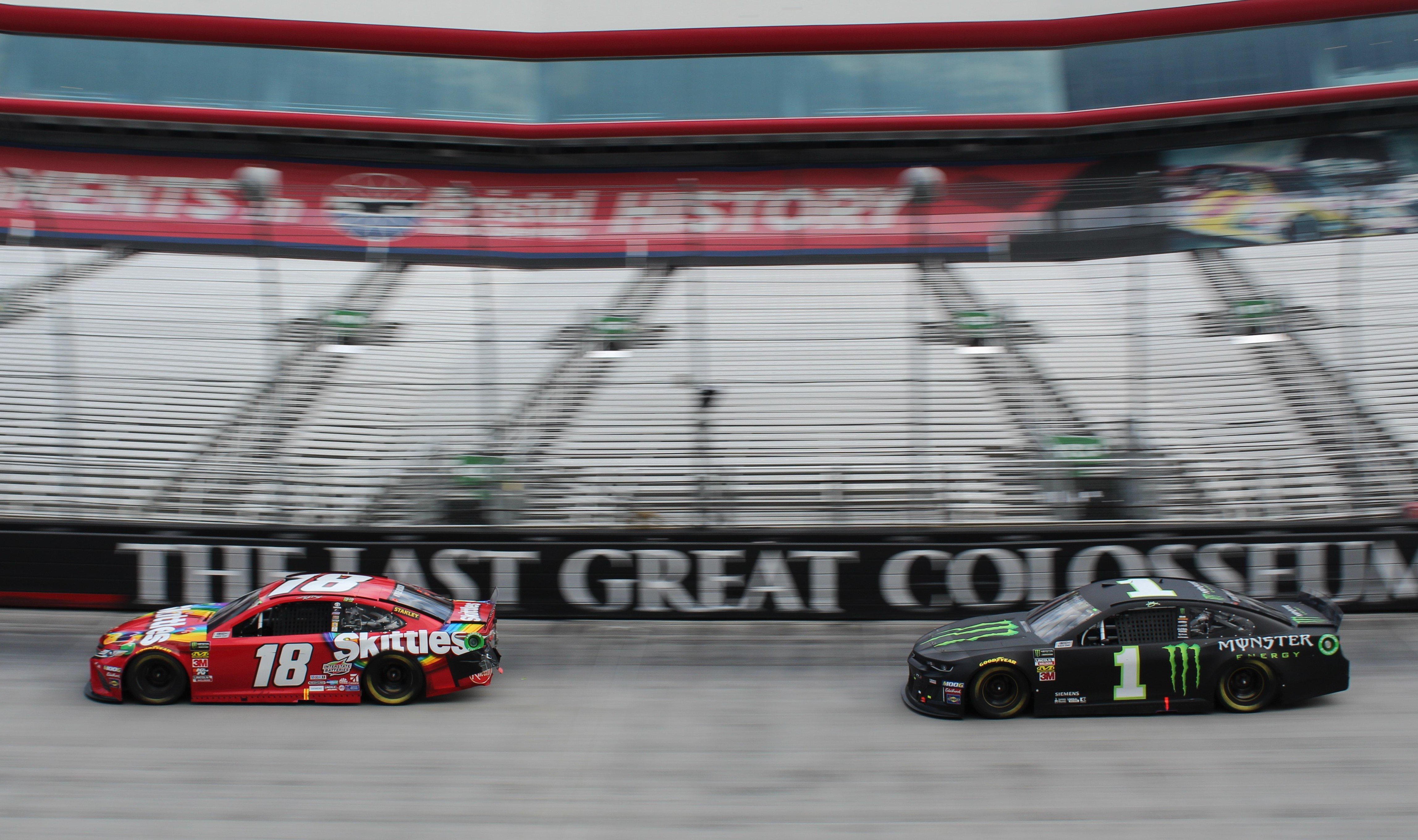 2019 Food City 500